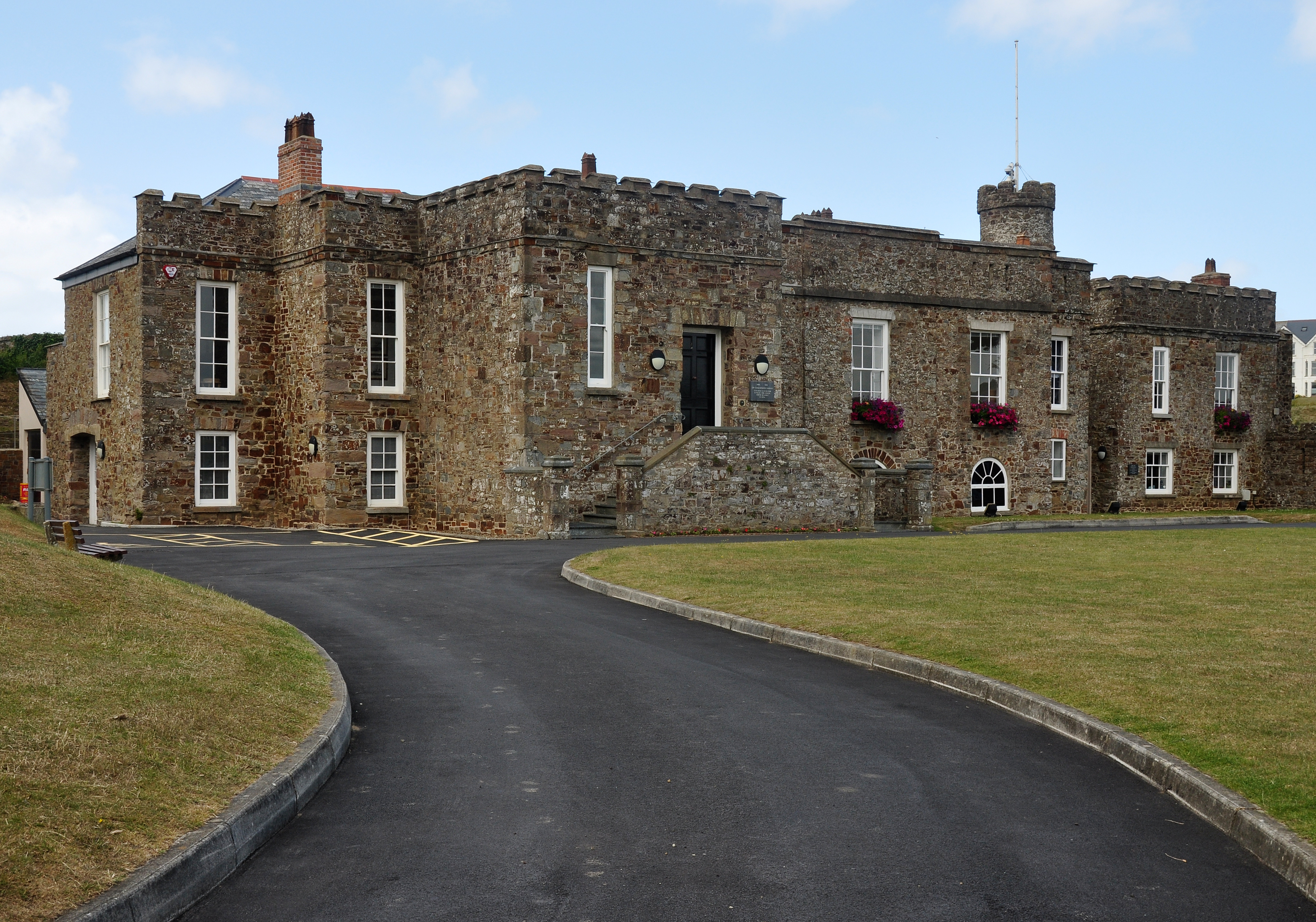 Bude Castle, in Bude, Cornwall.